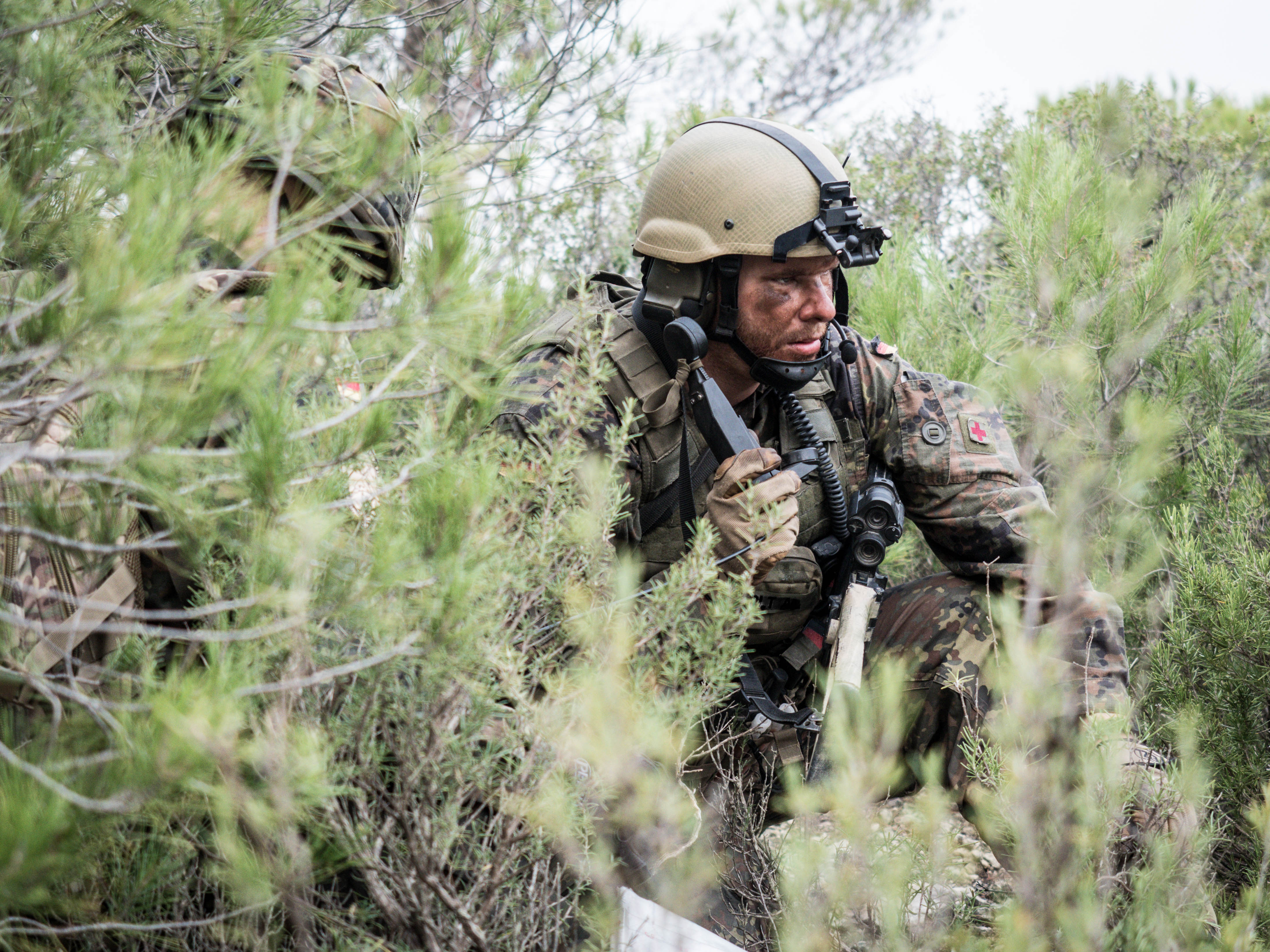 German Mountain Infantry platoon leader on the radion at San Gregorio training area, Spain on October 26, 2015 during Trident Juncture 15. NATO photo by A. MARKUS